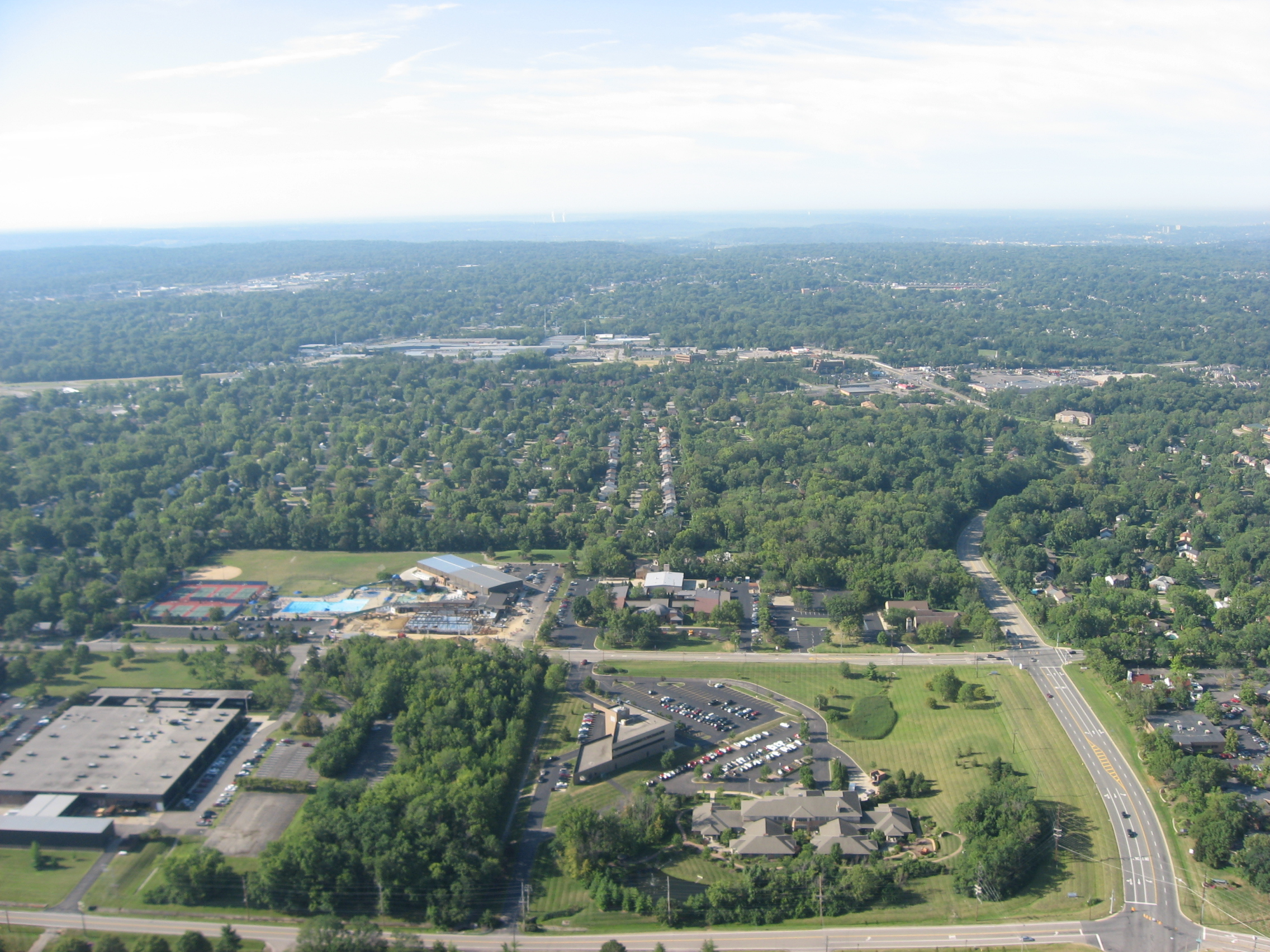 Aerial view of Blue Ash, a city near Cincinnati in Hamilton County, Ohio, United States. The major intersection in the bottom right corner is Malsbary Road and the Reed Hartman Highway. Picture taken from a Diamond Eclipse light airplane, preparing to land at the Cincinnati-Blue Ash Airport, from an altitude of 1,740 feet MSL and a bearing of approximately 185º.